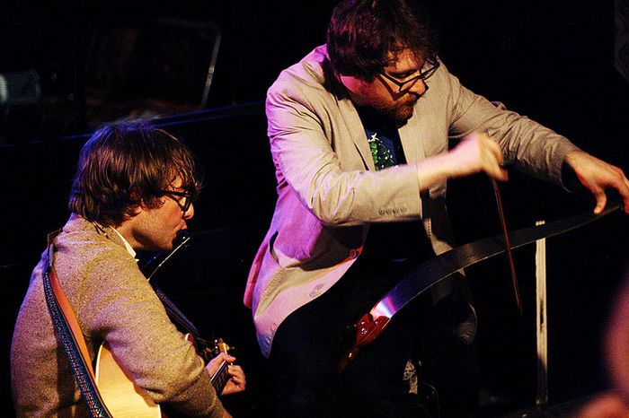 Frontier Ruckus performing at Debaser in Stockholm, Sweden in May 2011